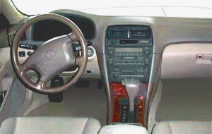 ES 300 interior photo, cleaned up